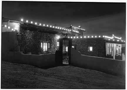 Christmas luminarios at Seton Village near Santa Fe, New Mexico, 1950s